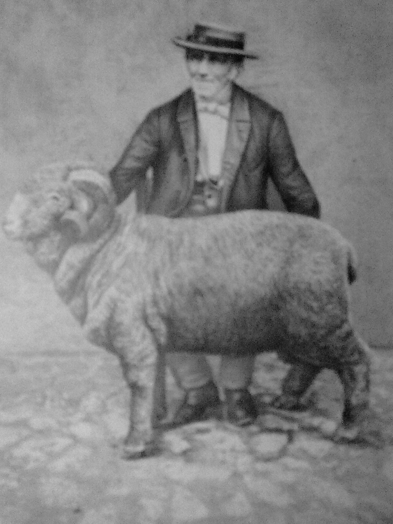 picture of Carl August Gadegast with sheep